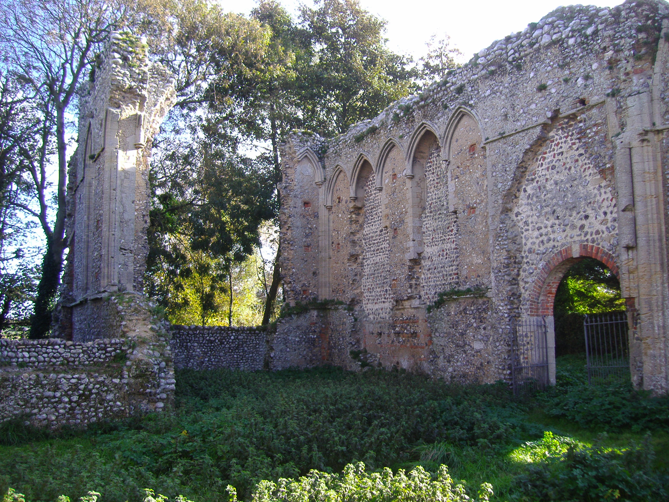 Part of the ruins of Priory of St Mary in the Meadow, Beeston Regis, Norfolk.